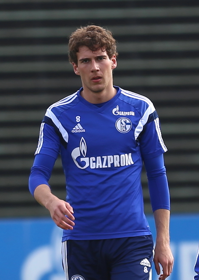 Leon Goretzka at a Schalke 04 training on 16 April 2015.